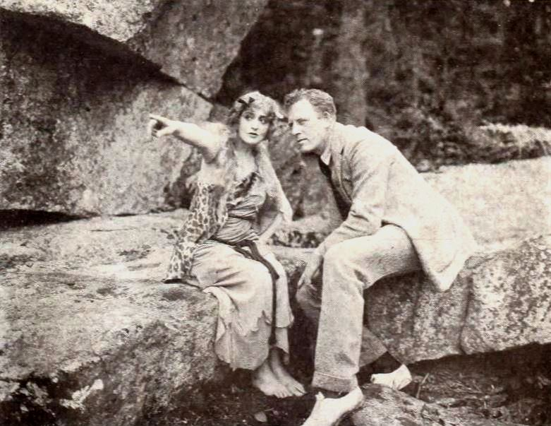 Still from the production of American drama film The Struggle Everlasting (1918) with Florence Reed and and director James Kirkwood, on page 21 of the October 13, 1917 Exhibitors Herald.